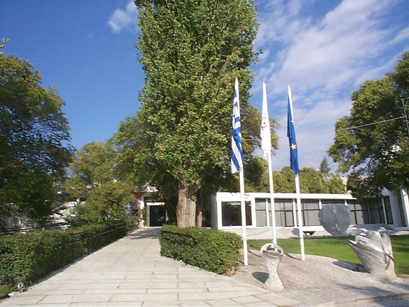 View from outside, image from the Macedonian Museum of Contemporary Art, Thessaloniki, Central Macedonia, Greece